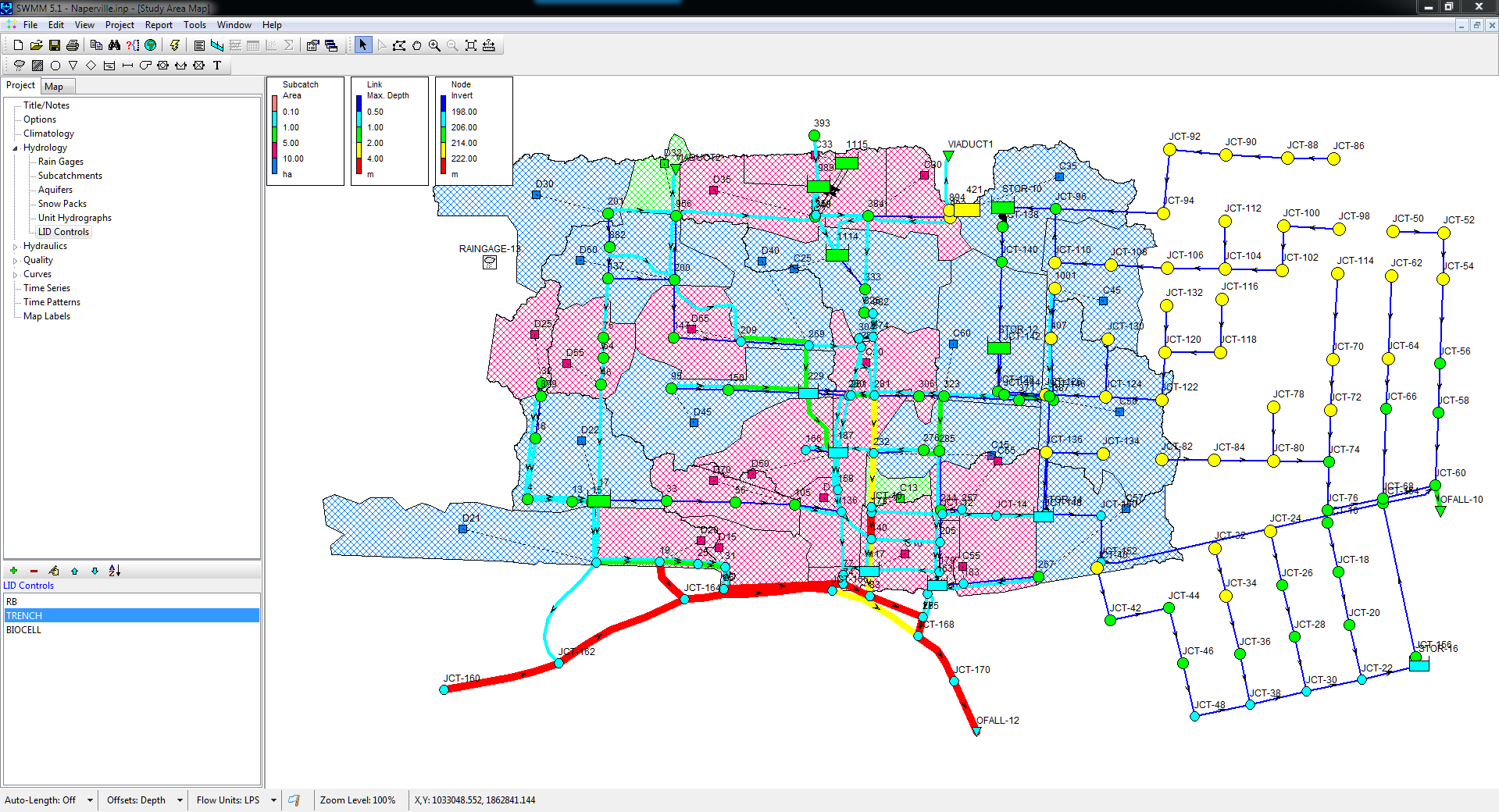 SWMM 5 Model Screen Capture